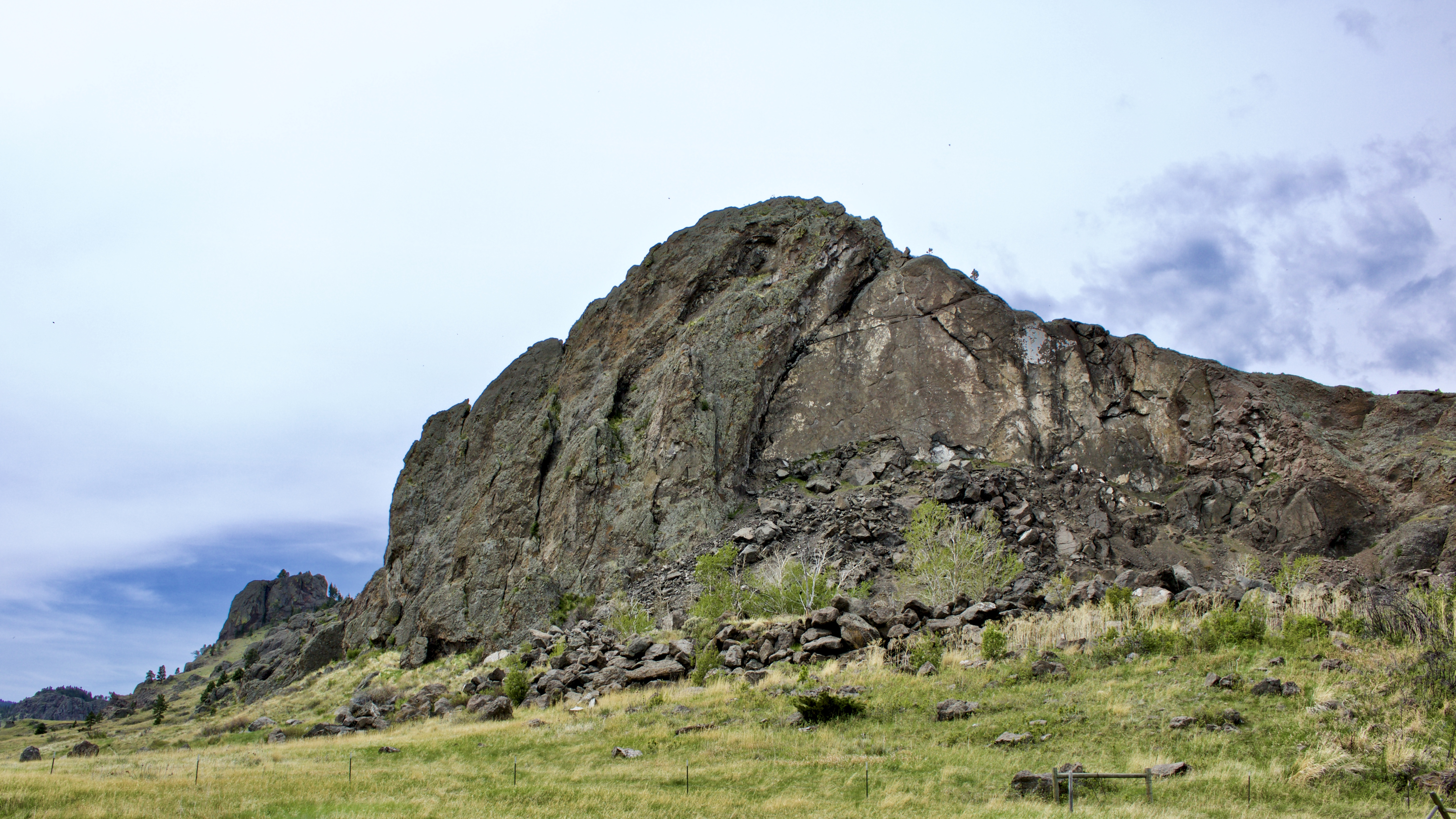 Tower Rock State Park, Cascade County, Montana. Image taken from north end of formation, facing roughly due south/southwest